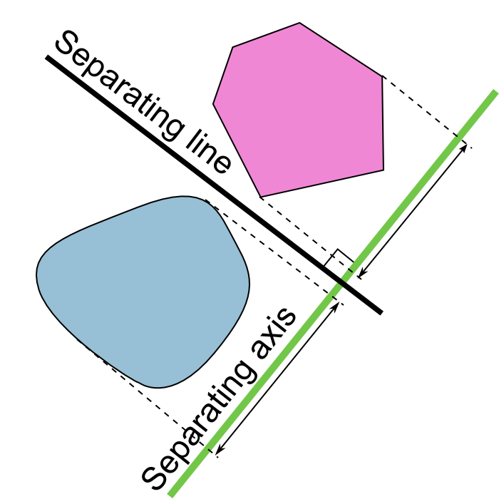 Separating Axis vs Separating Line in 2D, including Projected Intervals